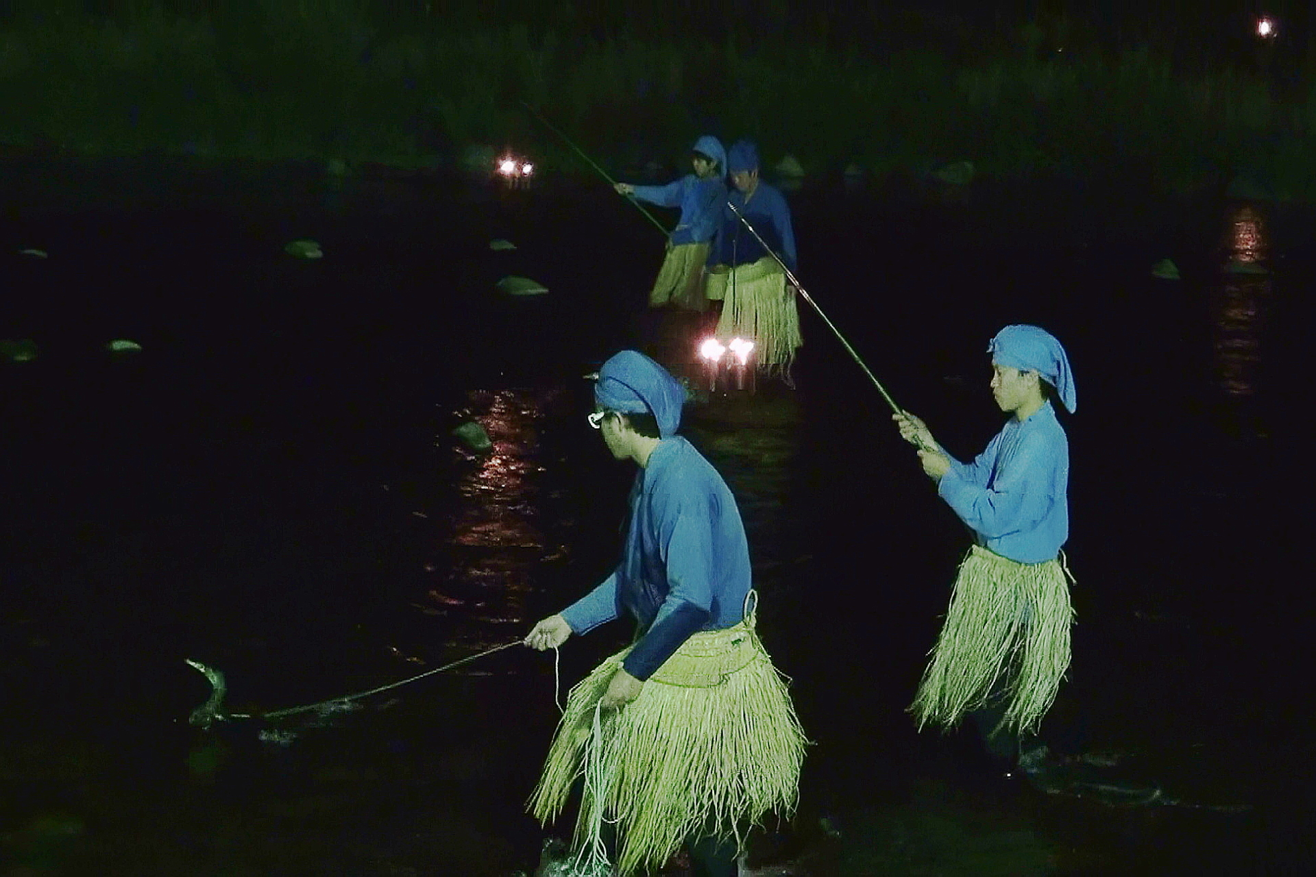 Isawa Ukai Cormorant fishing